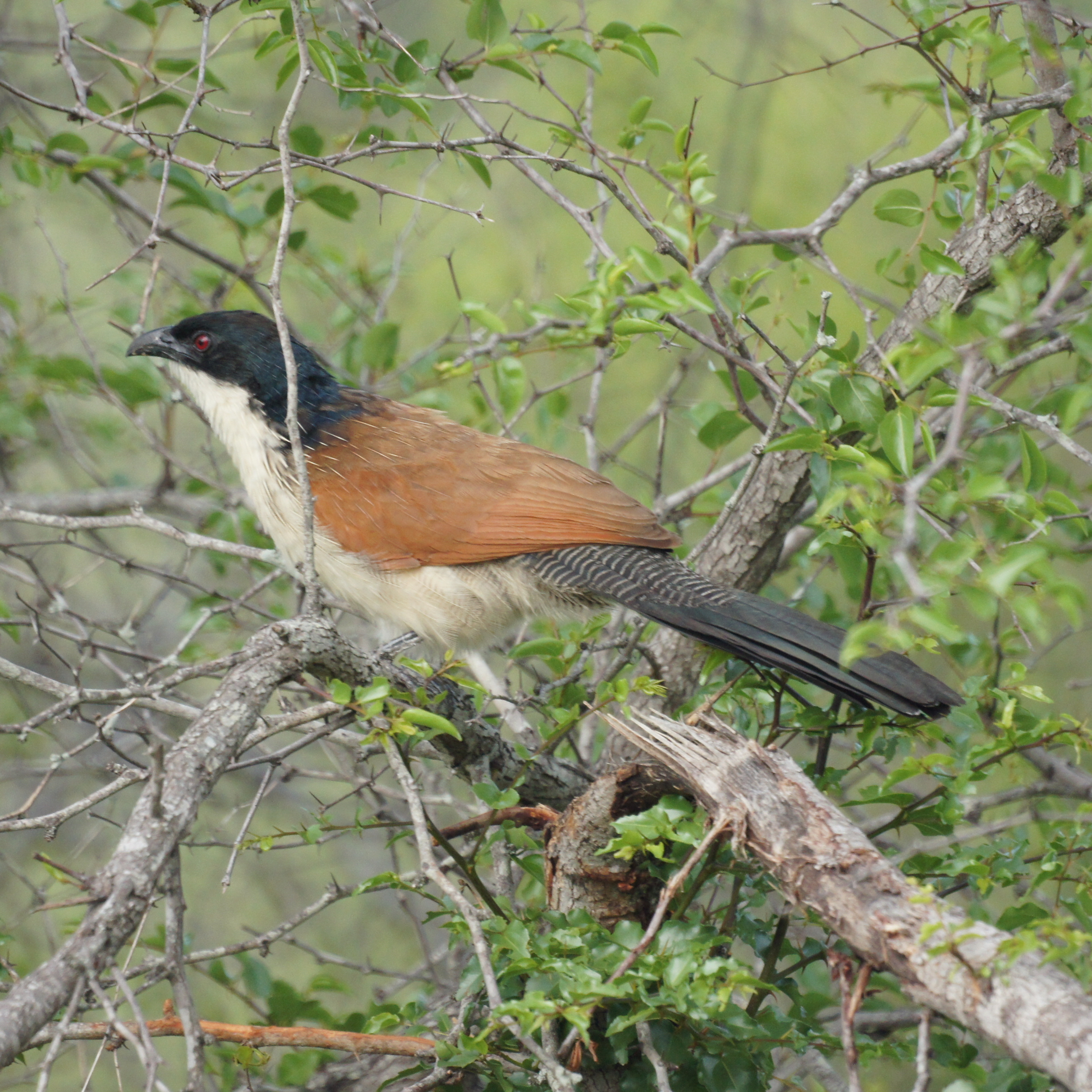 A Burchell's Coucal Centropus burchellii in Limpopo, South Africa.